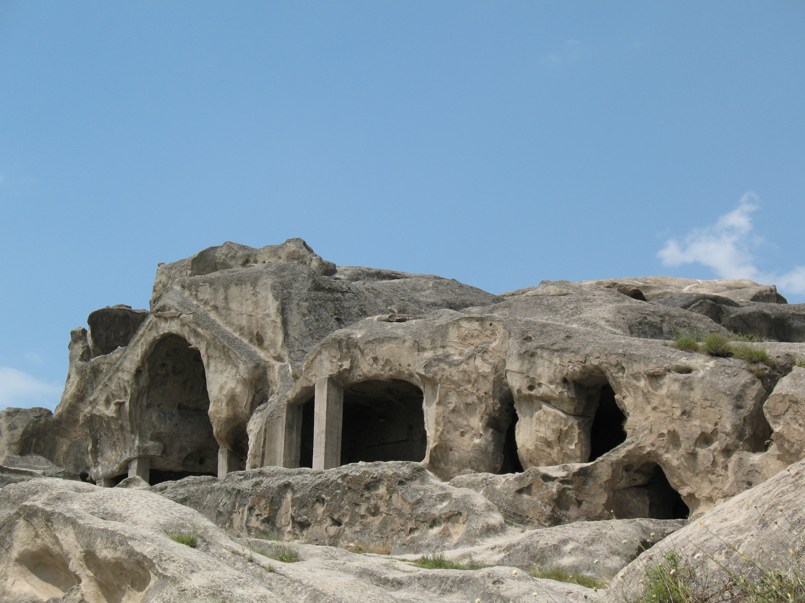 Uplistsikhe, a ruined rock-hewn city of ancient Georgia